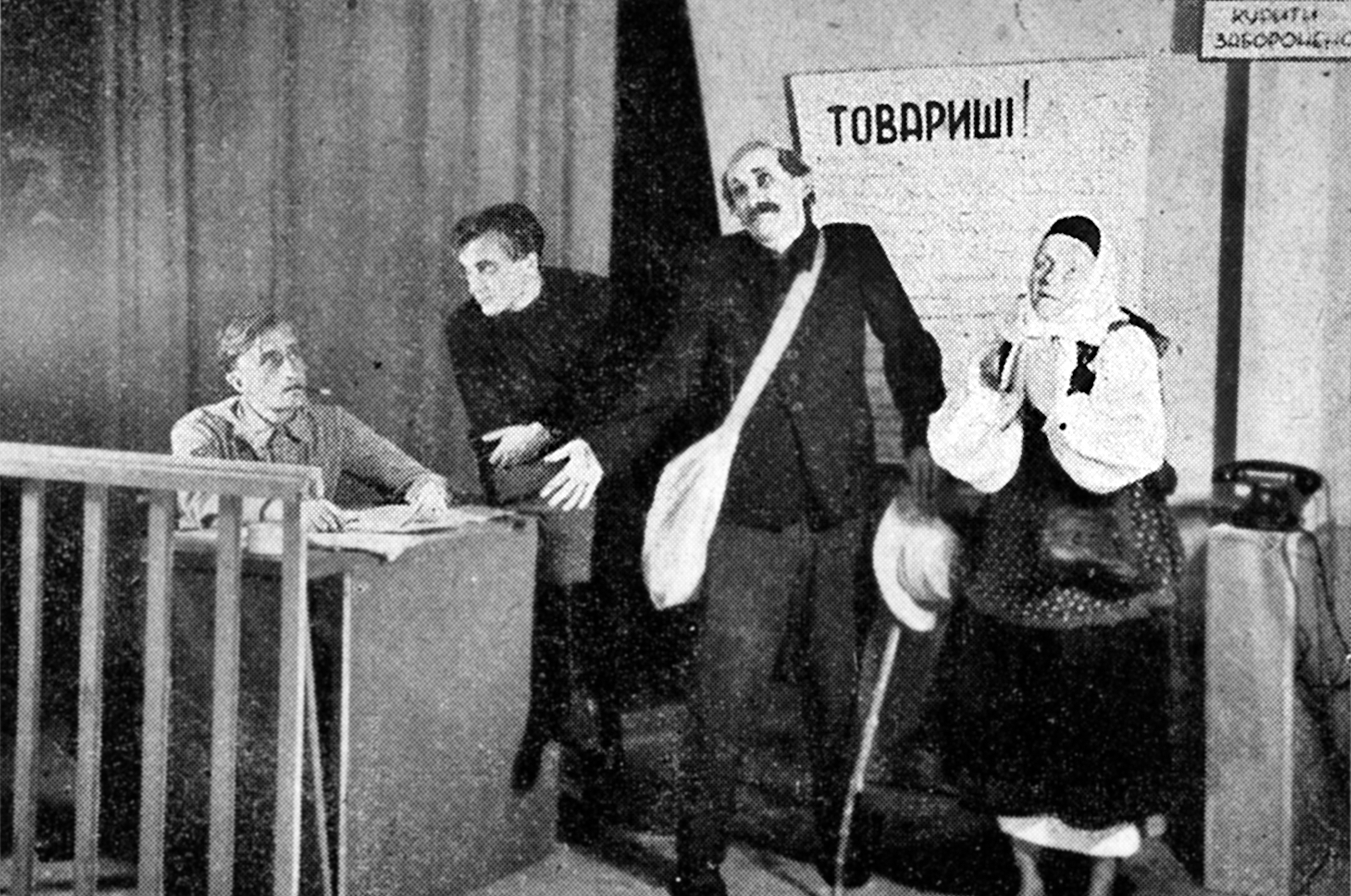 Image of the play "Narodnij Malakhij" from the theatre program guide of the same name, performed in Augsburg, Germany.